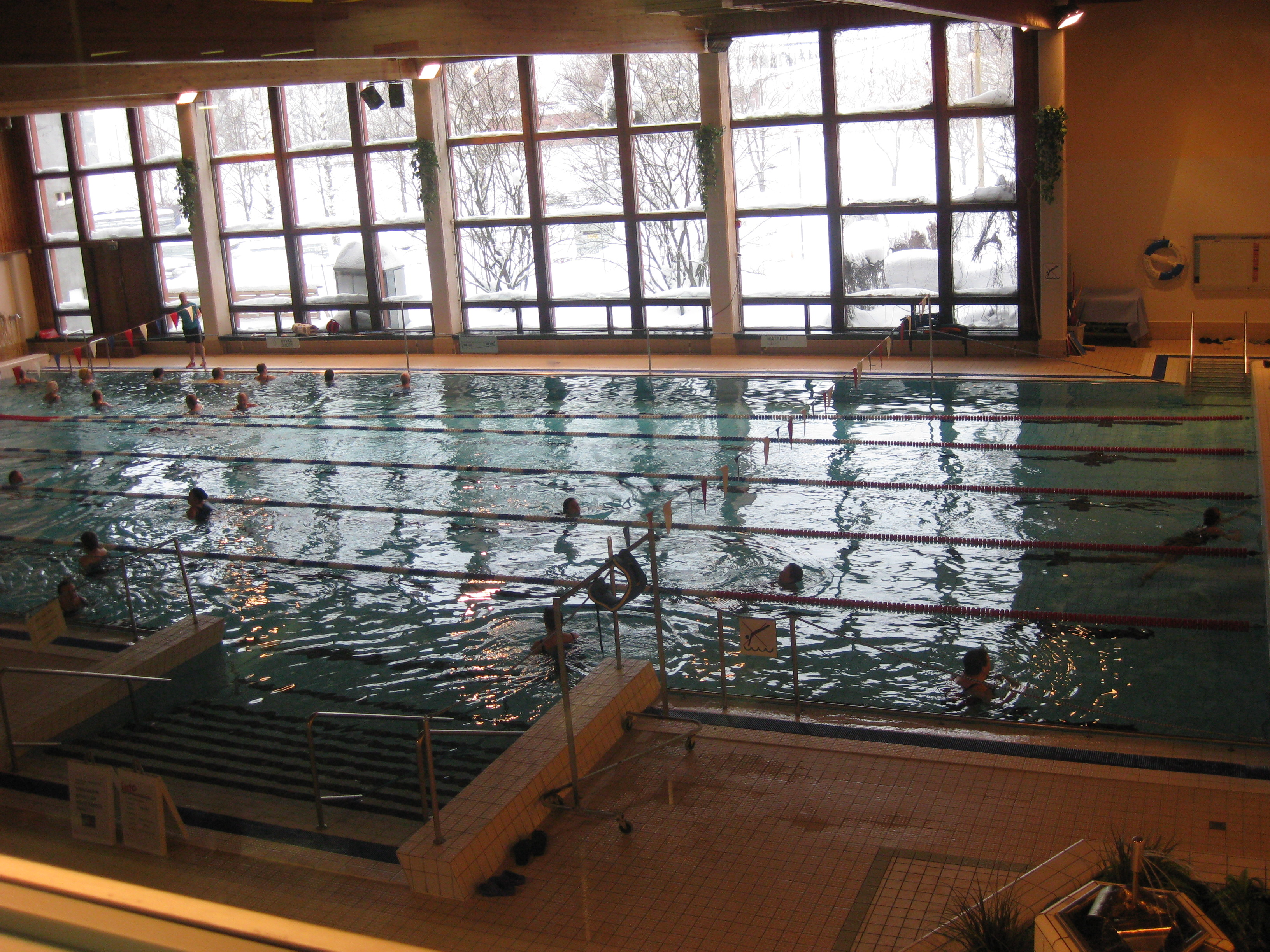 Vuosaari swimming pool in Vuosaari sport house, Helsinki